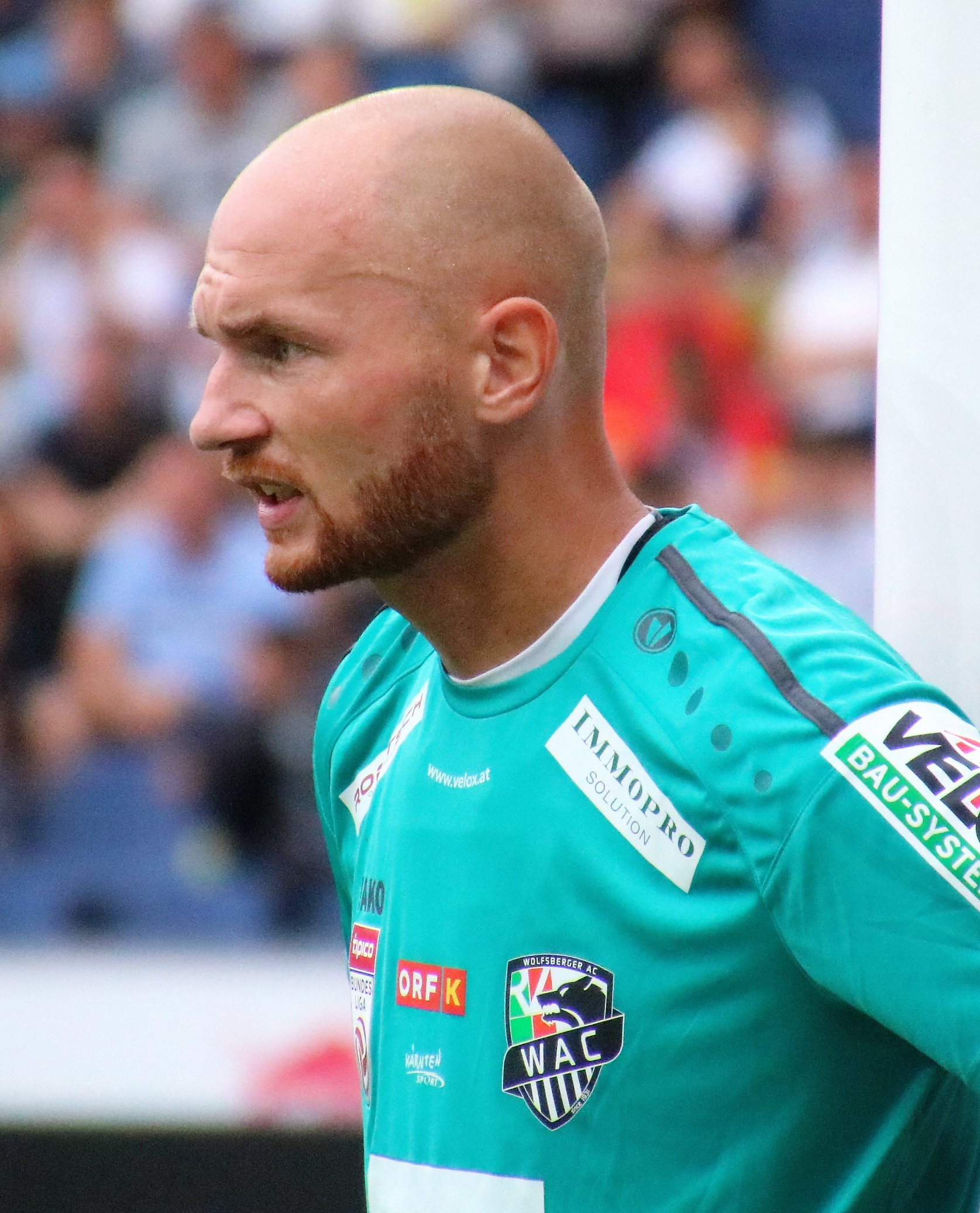 league match 3rd round Austrian Bundesliga